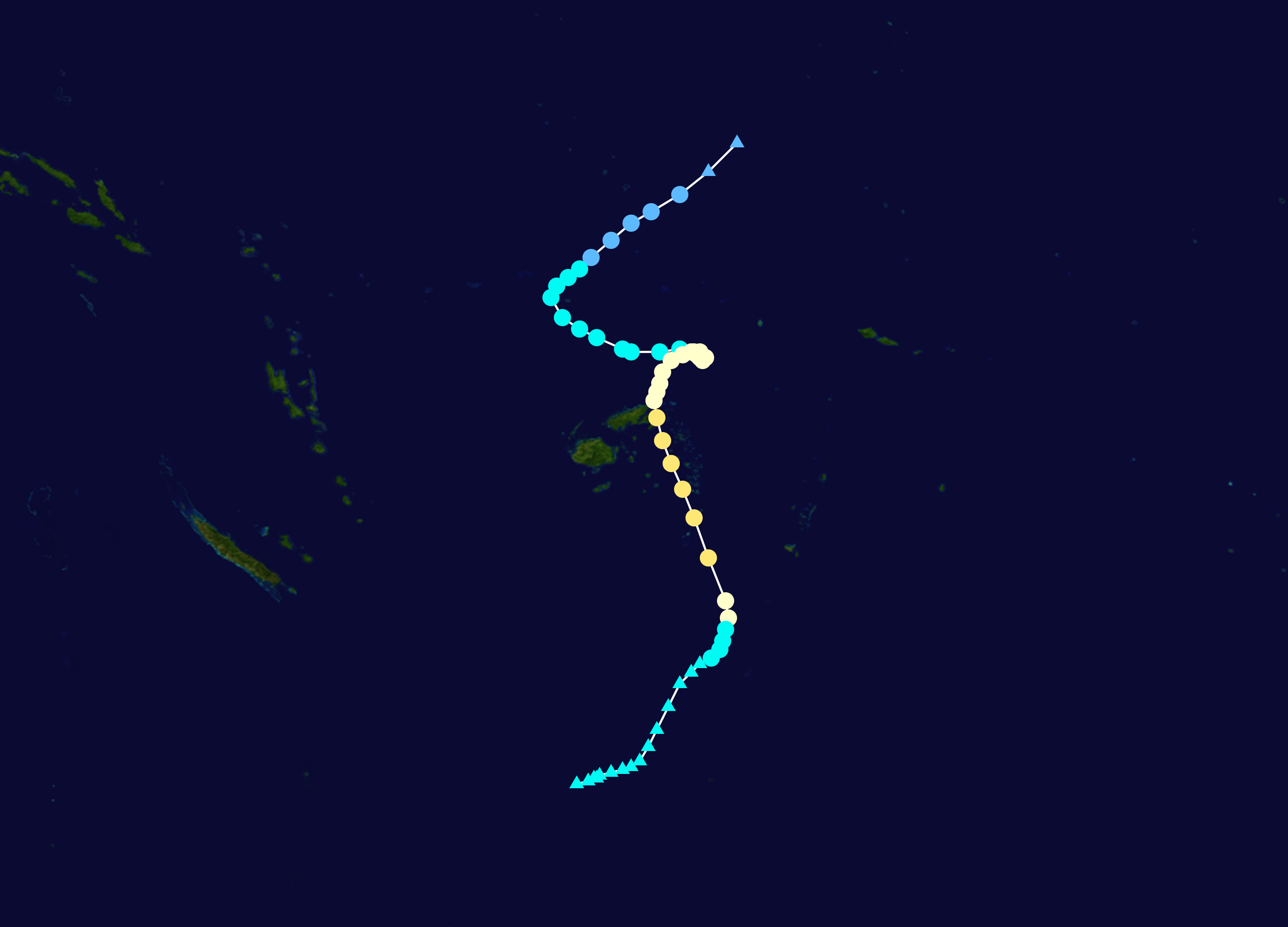 Cyclone Raja (1986) track. Uses the color scheme from the Saffir-Simpson Hurricane Scale. The points show the location of each storm at six-hour intervals. The colour represents the storm's maximum sustained wind speeds as classified in the Saffir-Simpson Hurricane Scale (see below), and the shape of the data points represent the nature of the storm. Saffir–Simpson scale Tropical depression≤38 mph≤62 km/h Category 3111–129 mph178–208 km/h Tropical storm39–73 mph63–118 km/h Category 4130–156 mph209–251 km/h Category 174–95 mph119–153 km/h Category 5≥157 mph≥252 km/h Category 296–110 mph154–177 km/h Unknown Storm type Tropical cyclone Subtropical cyclone Extratropical cyclone / Remnant low / Tropical disturbance